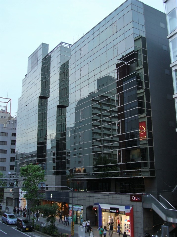 JPR (Japan Prime Reality Investment corp) Harajuku building, Shibuya city, Tokyo. This 9-story office building was built on Meiji-dori street in March, 1989.